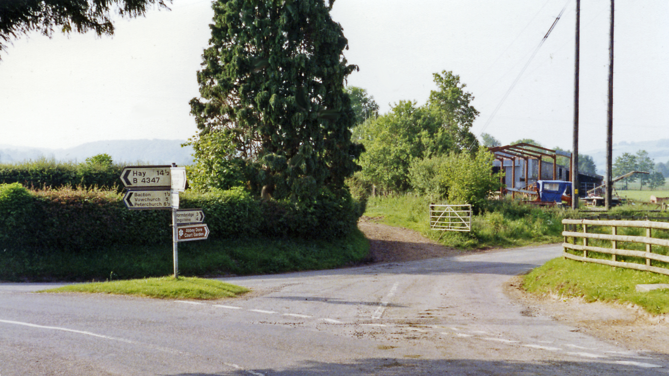 Abbeydore station - approximate site, 1994. View northward, towards Hay: ex-GWR Pontrilas - Hay branch, closed to passengers 12/12/41, to goods 6/57. No trace could be seen of the railway, which had crossed here on the level, 37 years before.